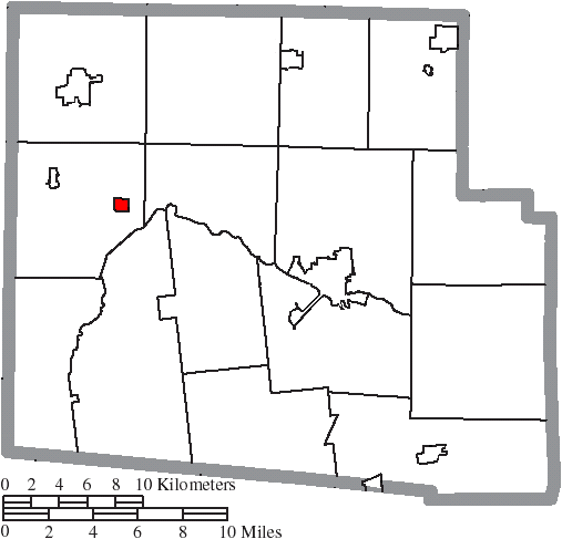 Map of the municipal and township boundaries of Hardin County, Ohio, United States, as of the 2000 census, with the location of the village of McGuffey highlighted. Township borders are shown only in unincorporated areas in order to differentiate incorporated and unincorporated areas more clearly.